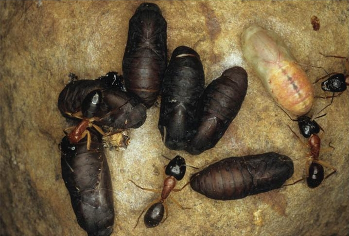 Orgyris genoveva pupae with attending ants